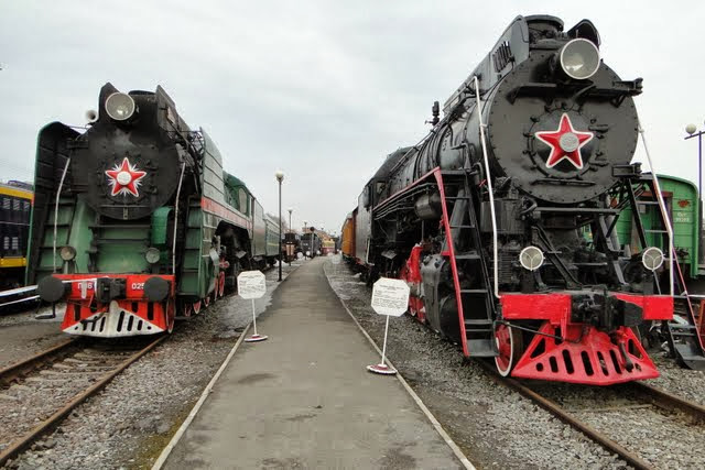 Russian Steam Locomotives